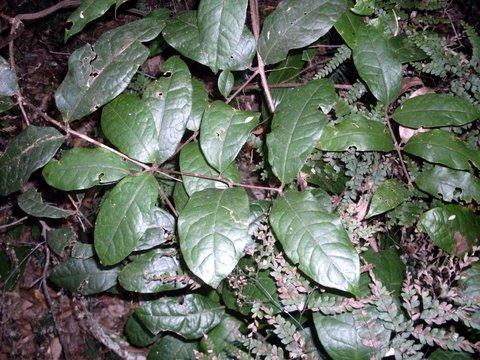 Wilkiea huegeliana at Macquarie Pass National Park